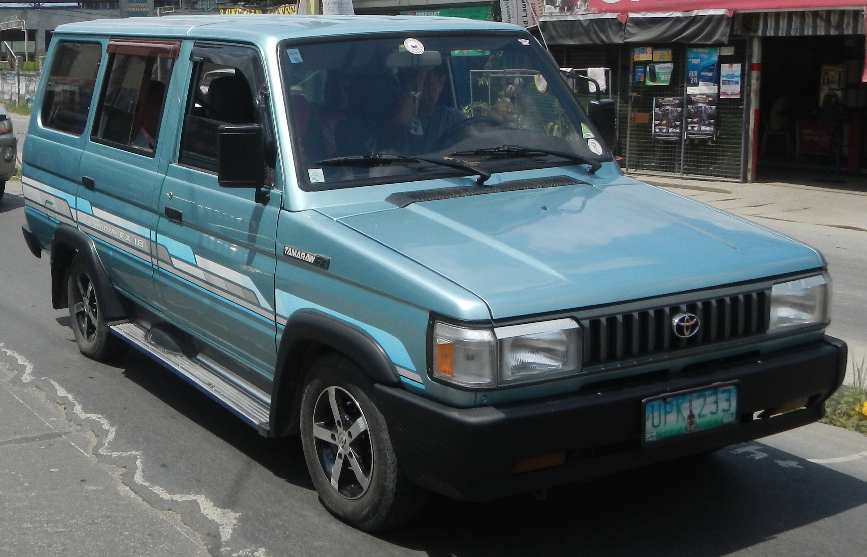 Maharlika Highway (Cut-cot & Longos, Pulilan-Banga 1st-Banga 2nd & Tabang, Plaridel, Bulacan section) Barangays Cut-cot & Longos, Pulilan, Bulacan, Banga 1st-Banga 2nd & Tabang, Plaridel, Bulacan, Bulacan province, (accessed from Cagayan Valley Road, Baliuag-Pulilan-Guiguinto, Bulacan, Pan-Philippine Highway, also known as the Maharlika "Nobility/freeman" Highway).